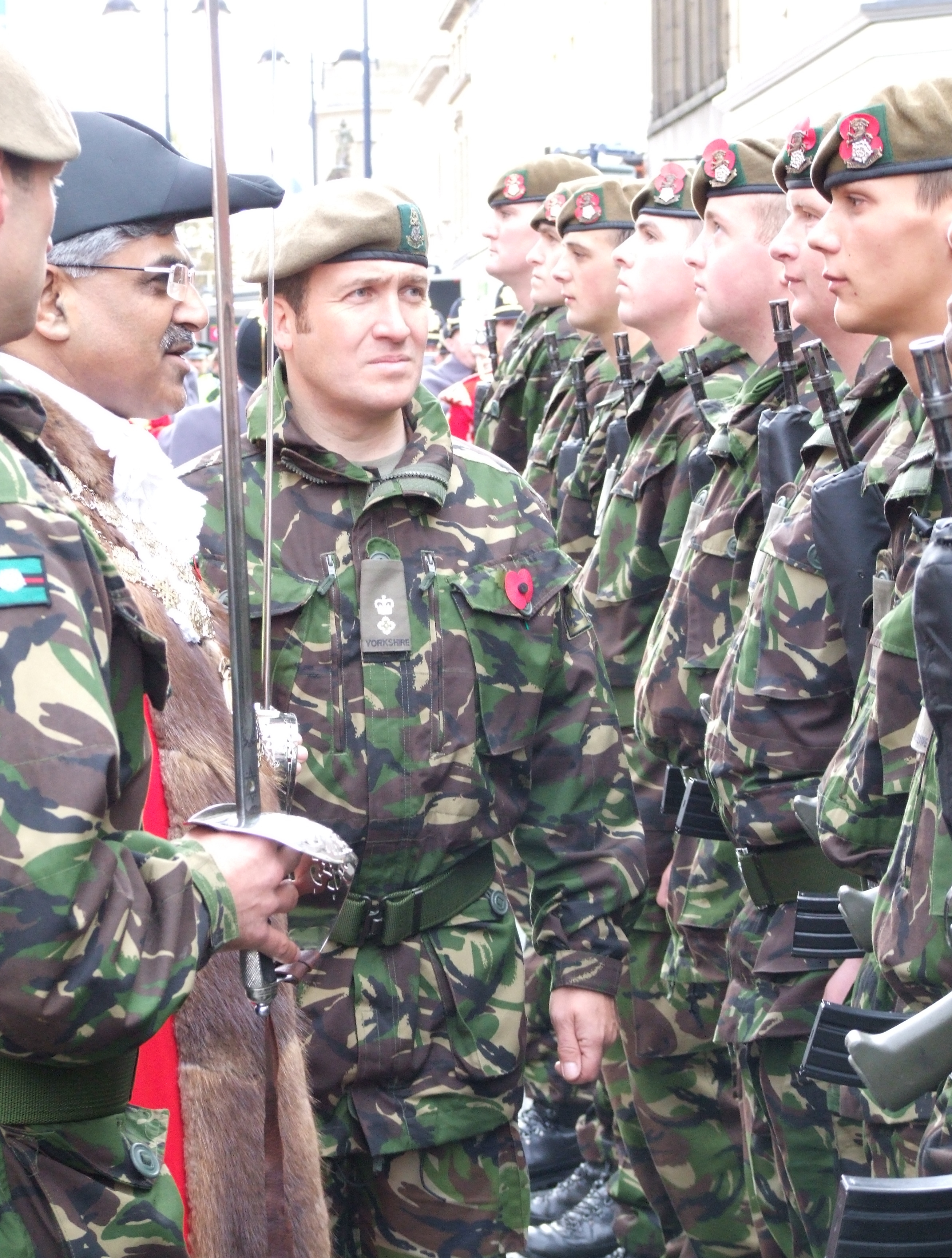 Kirklees Mayor, Cllr Karam Hussain & Lt Col Andy Pullan Inspect Yorkshire Regiment Soldiers At the Regiments Freedom Parade in Huddersfield. West Yorkshire, UK